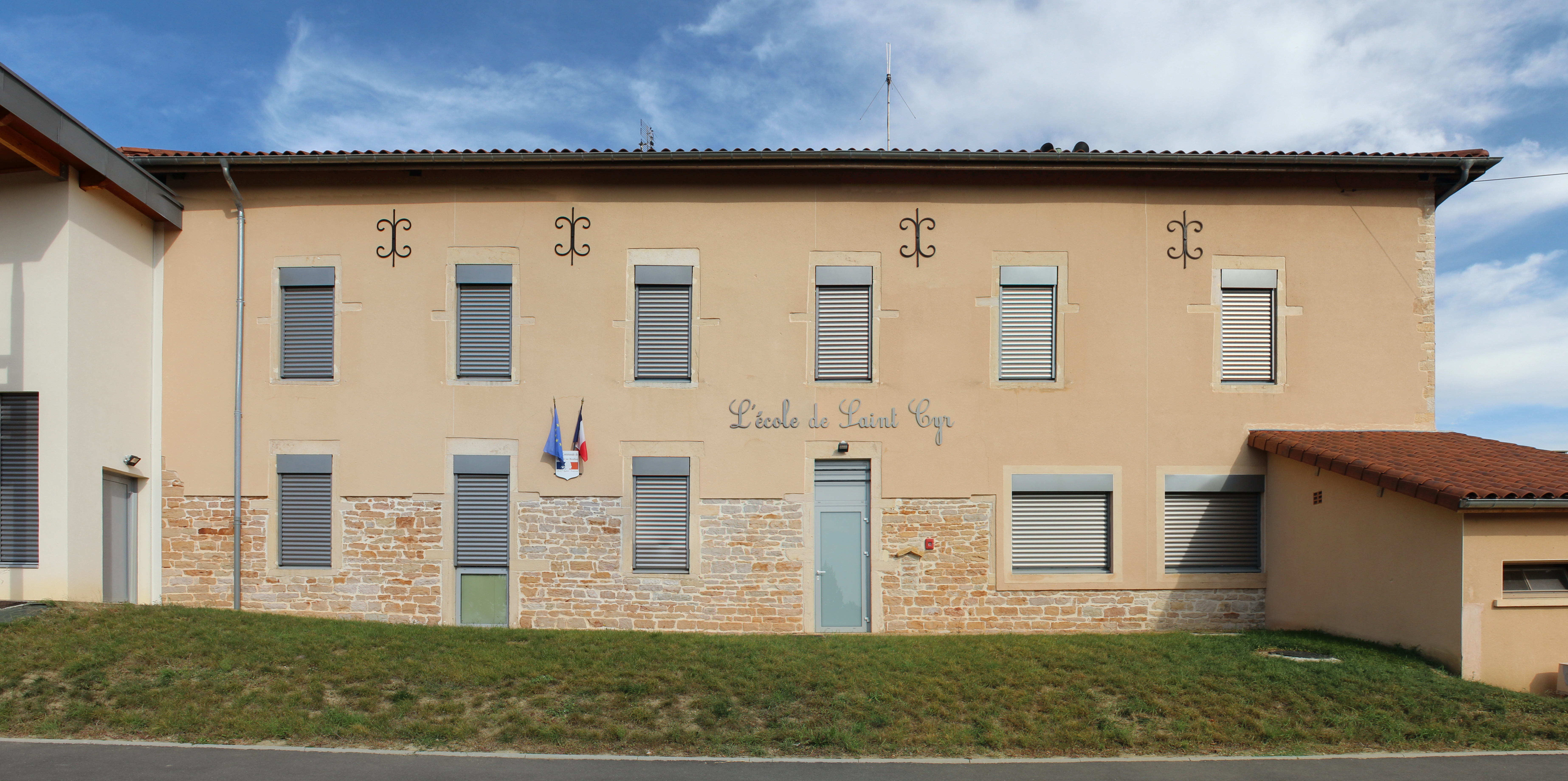 Municipal school of Saint-Cyr-sur-Menthon, France.